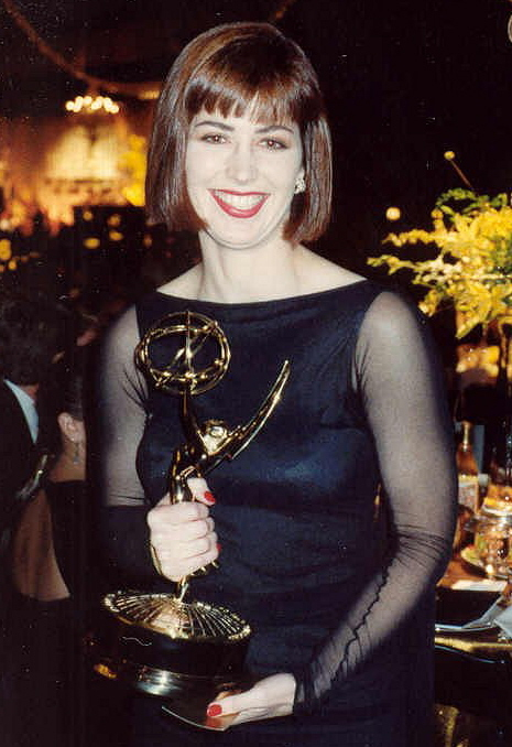 Dana Delany at the 41st Emmy Awards